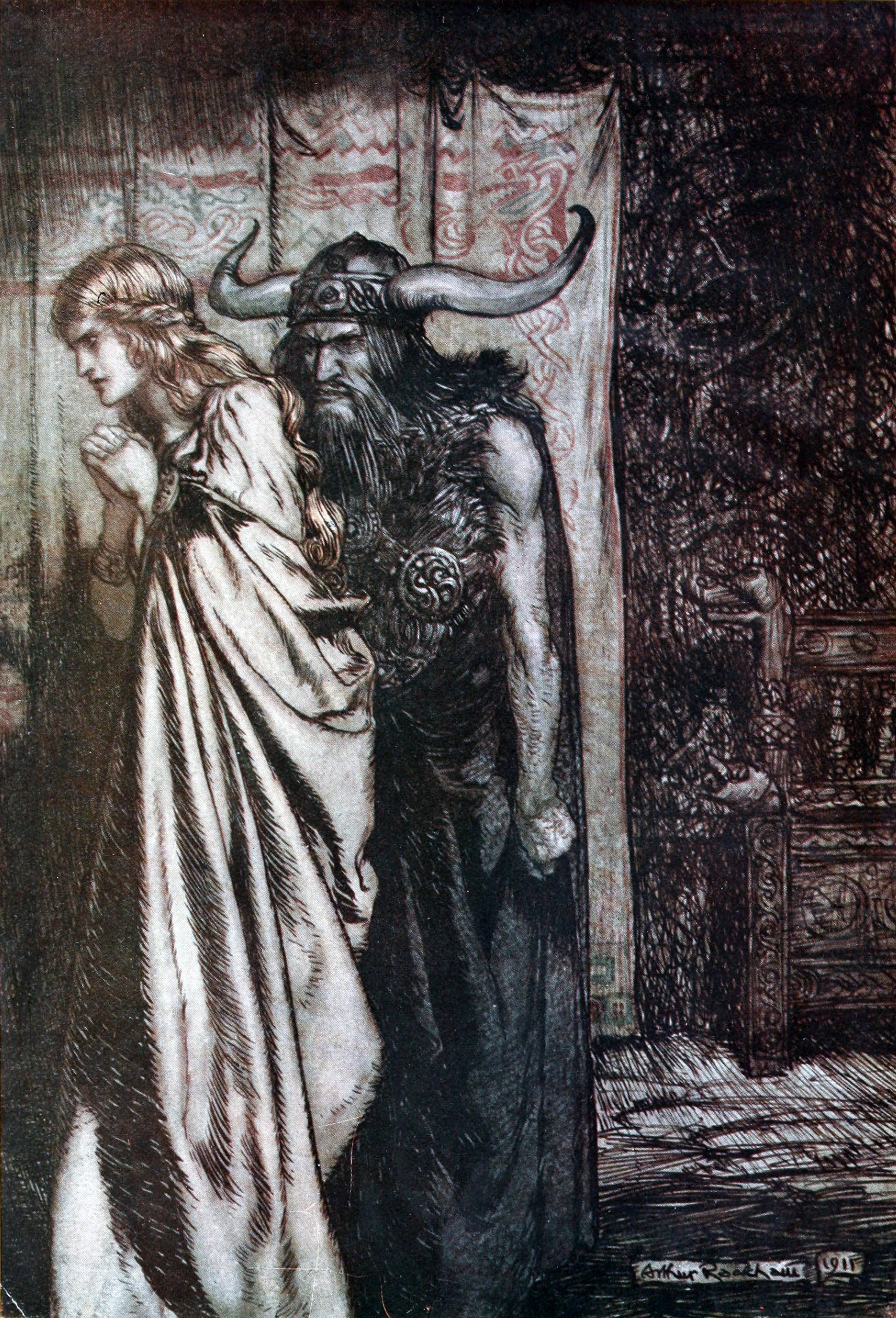 "O wife betrayed / I will avenge / Thy trust deceived"